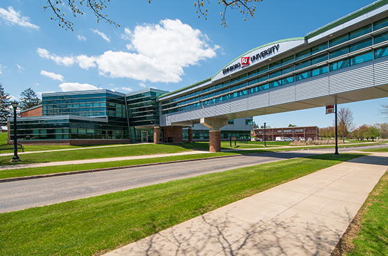 Edinboro University’s Mathematics and Computer Science students enjoy state-of the-art learning facilities located primarily in Ross Hall, one of the University’s most recently updated facilities.